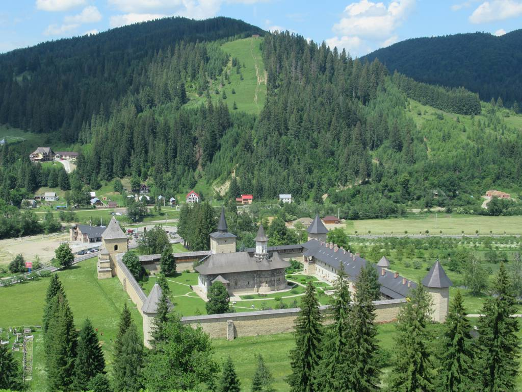 Sucevita Monastery (1586), the largest painted monastery in Bukovina, Romania, is surrounded by walls built to defend against Turkish invaders.